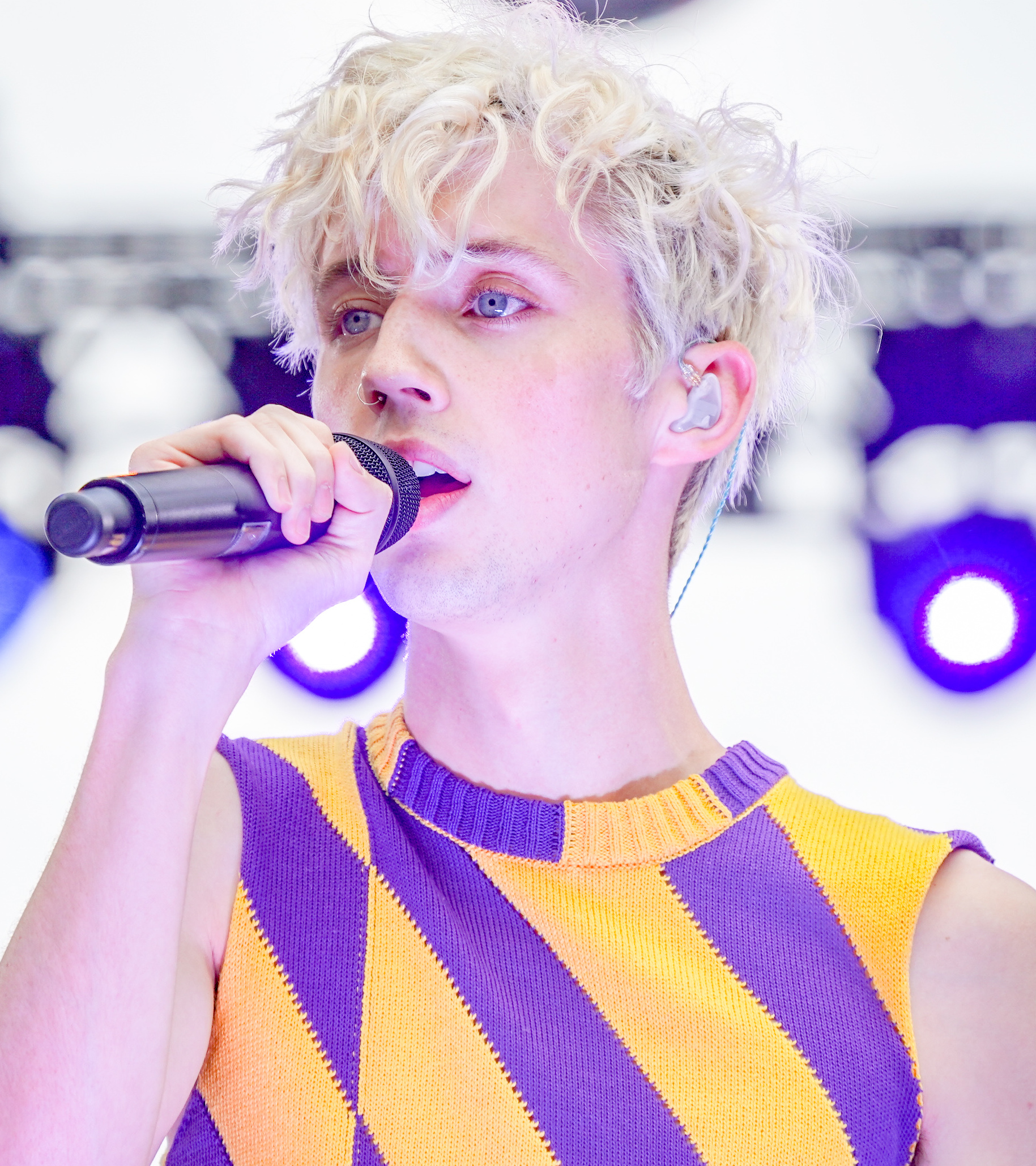 2018.06.10 Troye Sivan at Capital Pride w Sony A7III, Washington, DC USA 03461